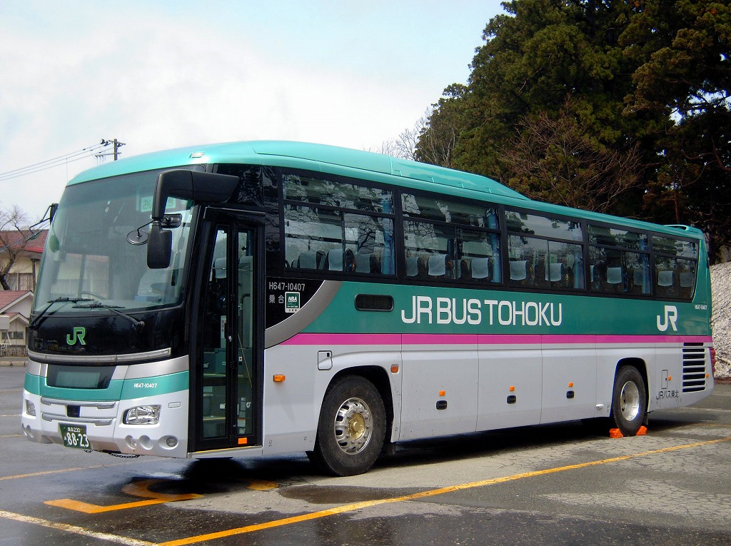 JR Bus Tohoku Hino S'ELEGA (LKG-RU1ESBA)